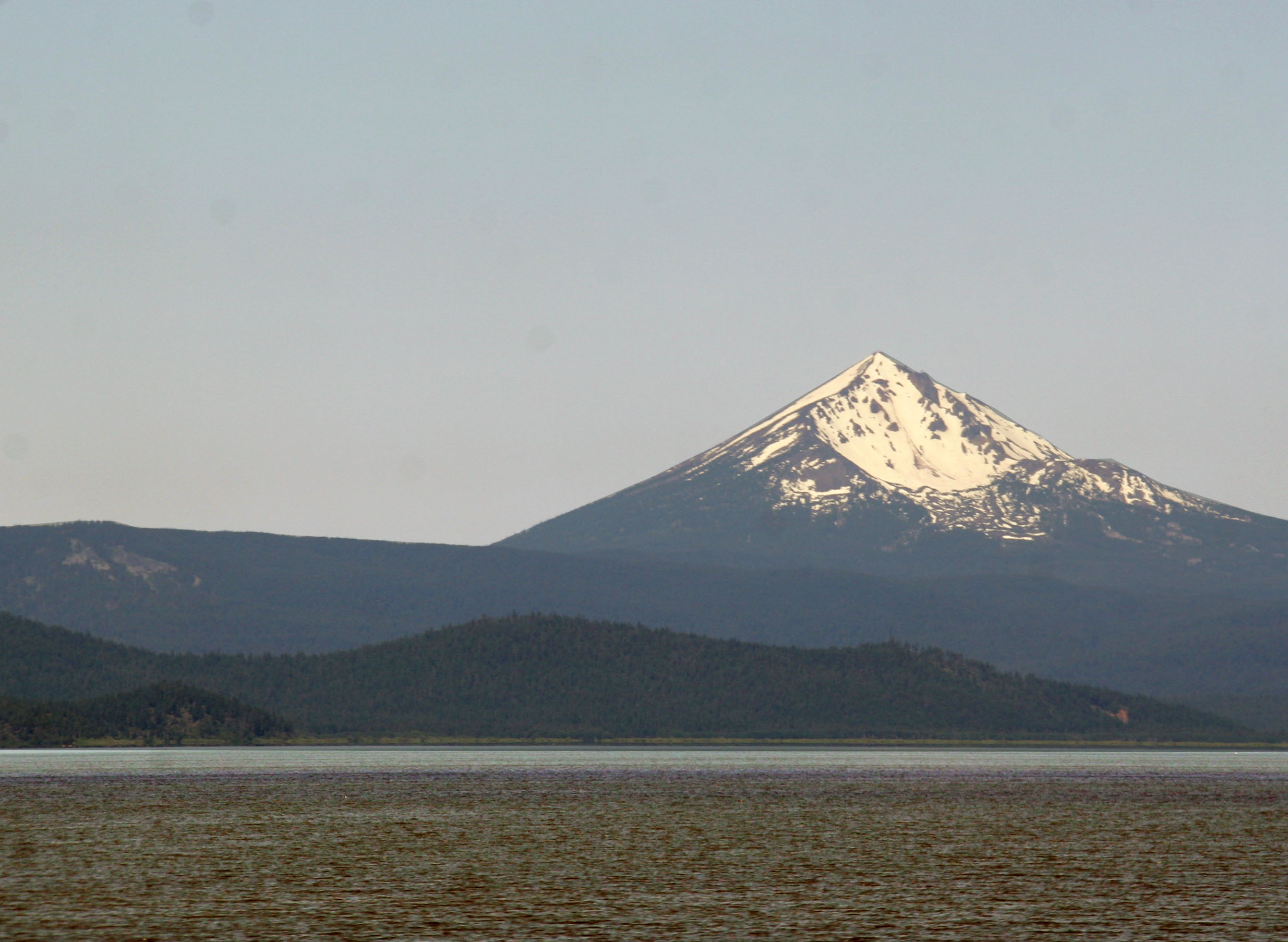 Upper Klamath Lake in Oregon (Mount McLoughlin in background)